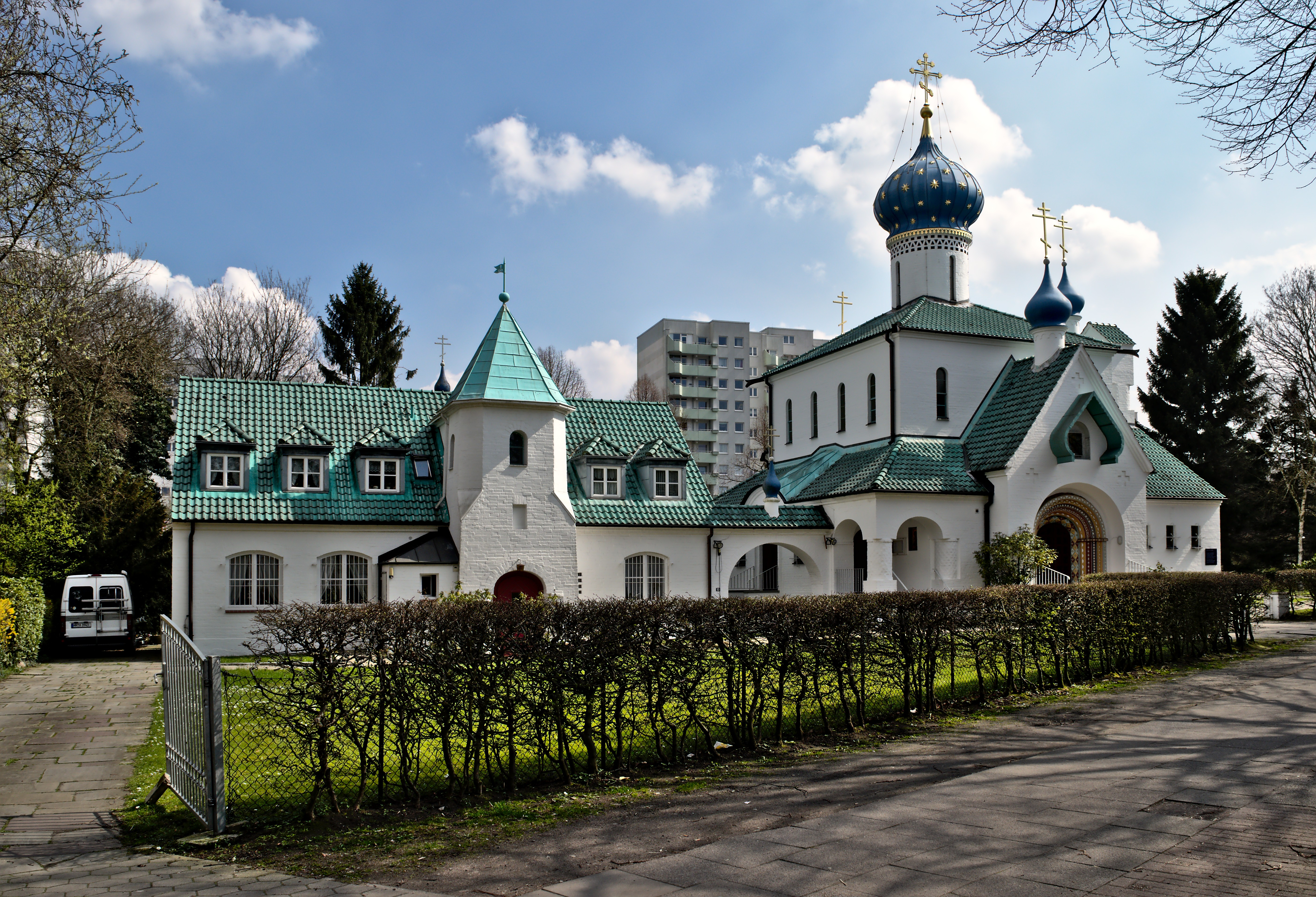 Russian Orthodox Church of Saint Procopius of Ustyug and parish hall (the building on the left) in Hamburg-Stellingen.